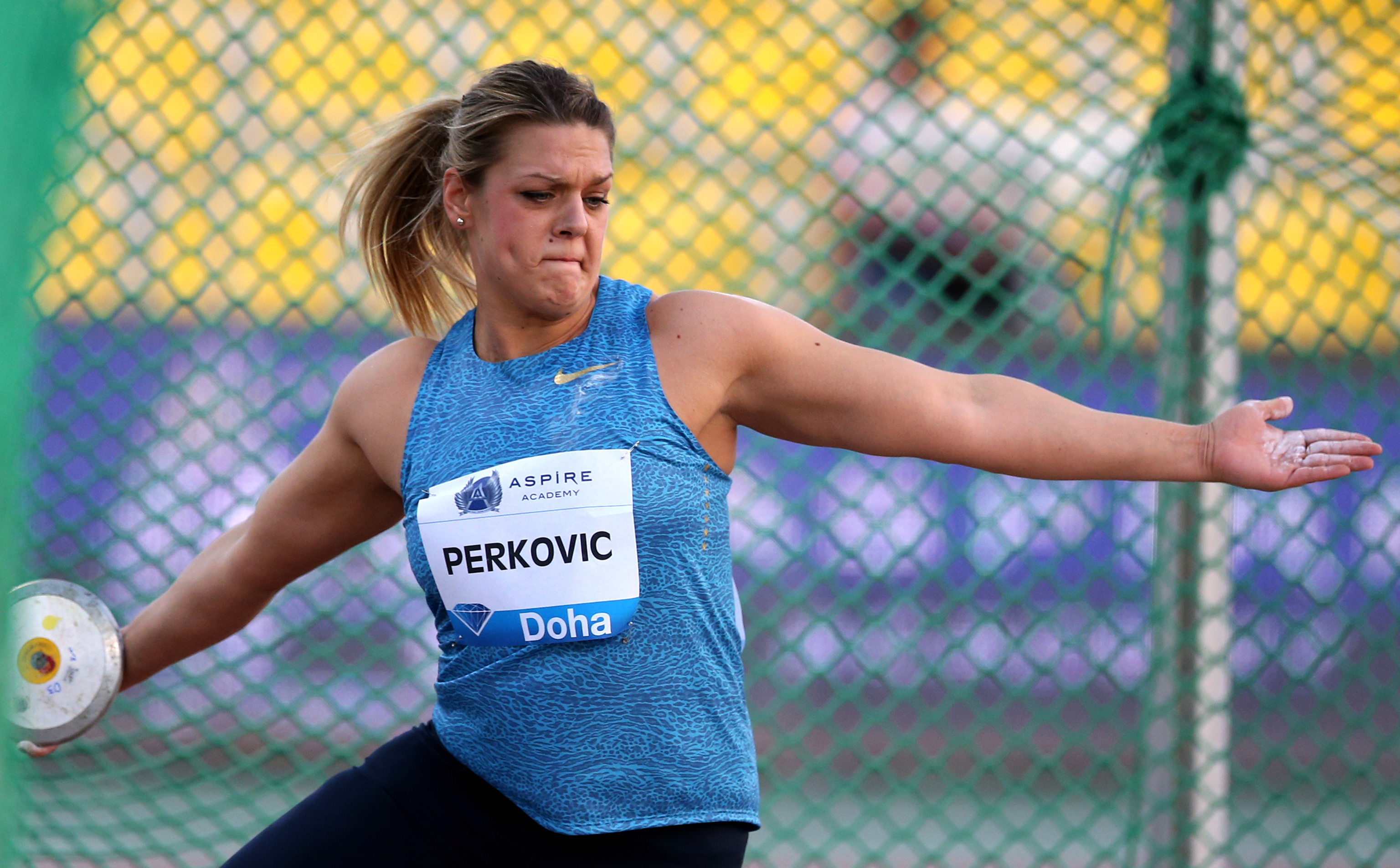 Croatia's Sandra Perkovic en route to women's discus throw gold at the Doha Diamond League meeting.